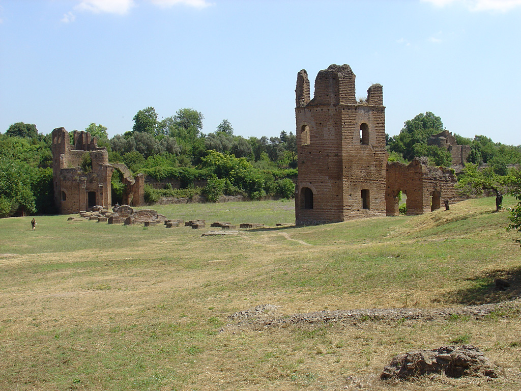 Appian Way in Rome, Italy.